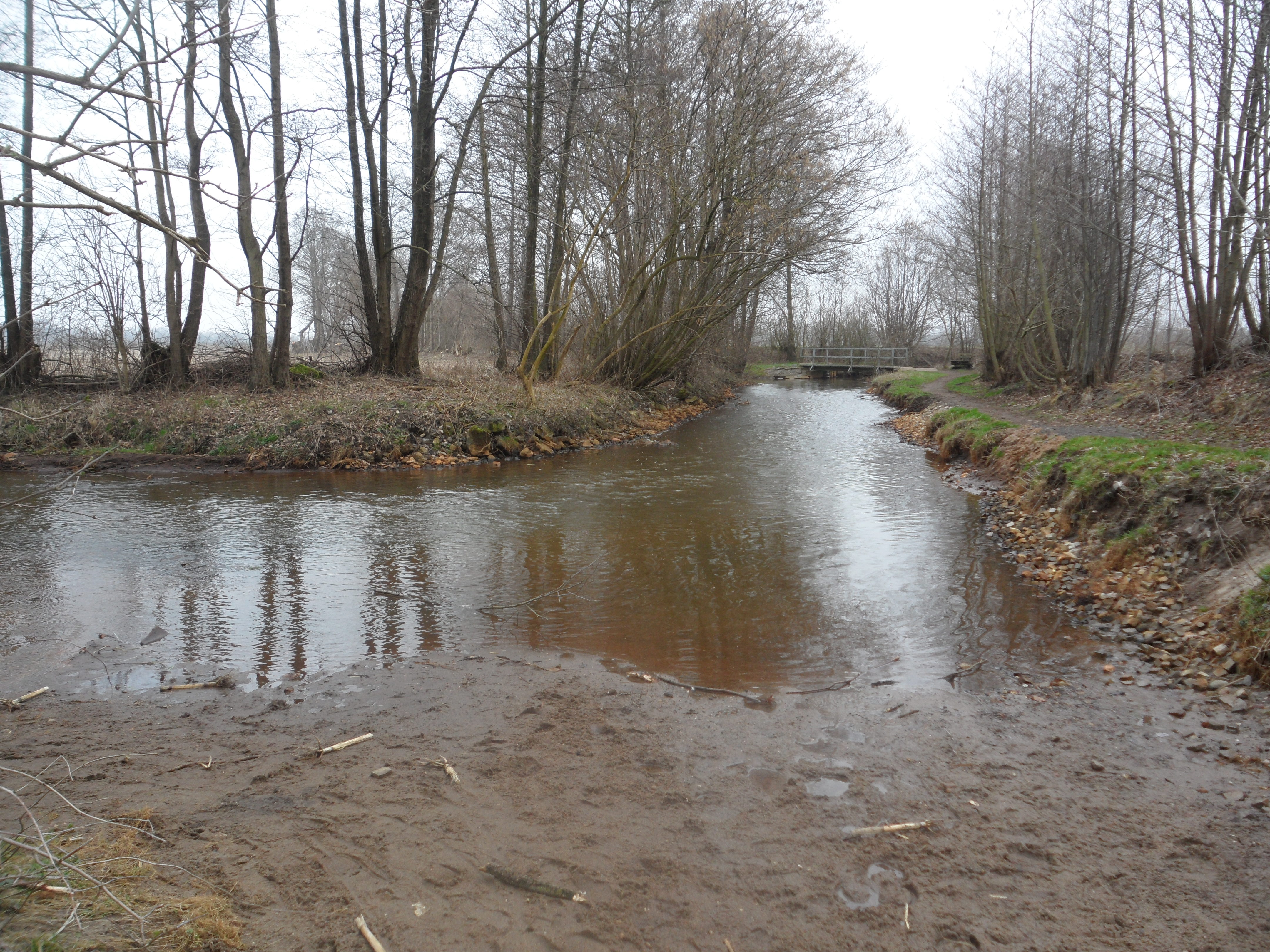 River Aalbek close to Neumünster